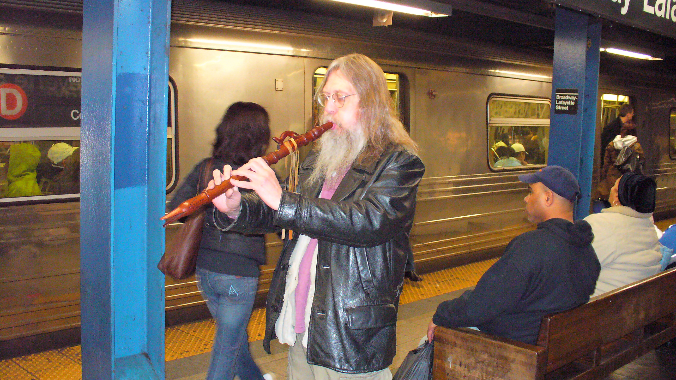 Native American Flute Busker by David Shankbone